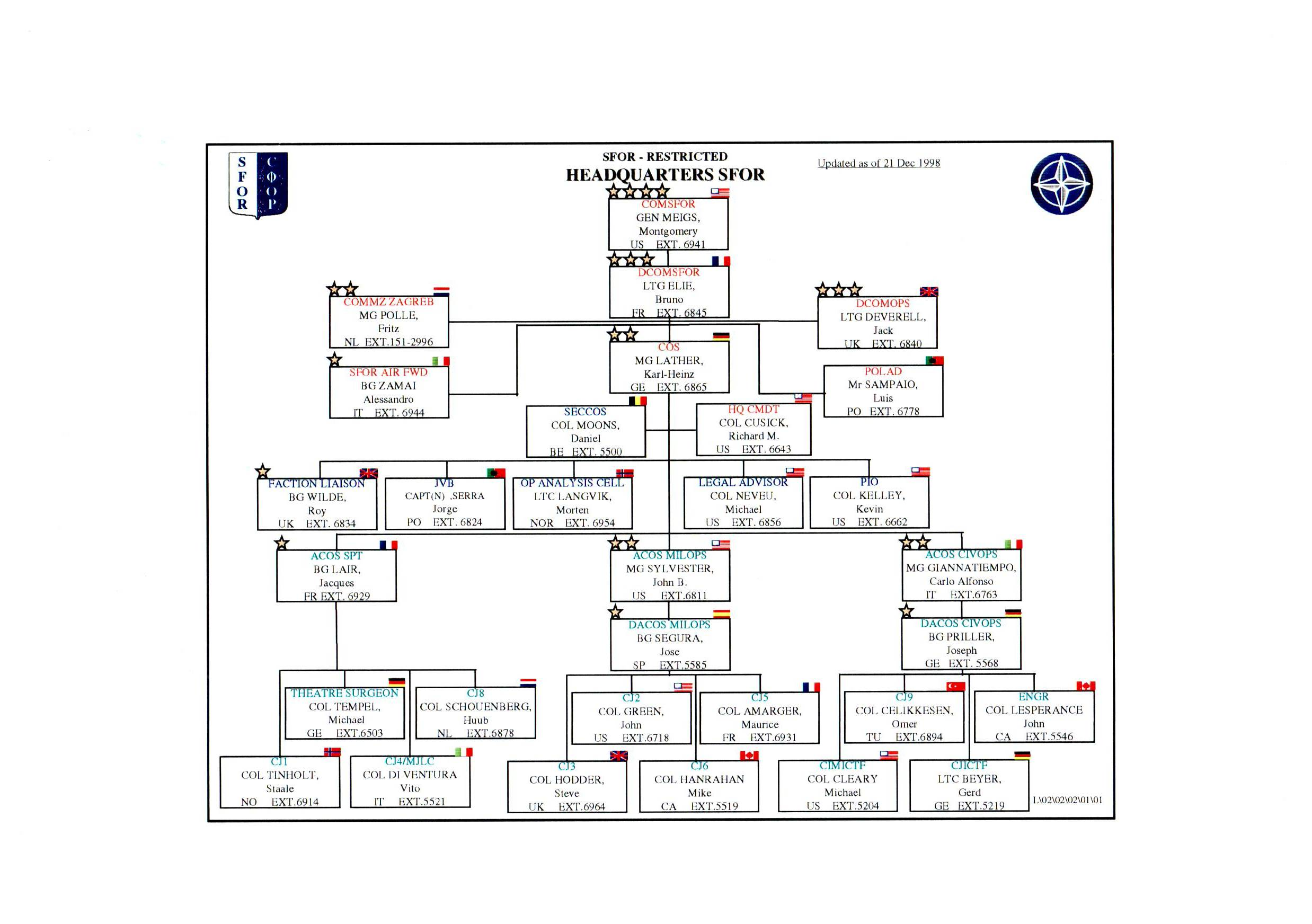 Organogram